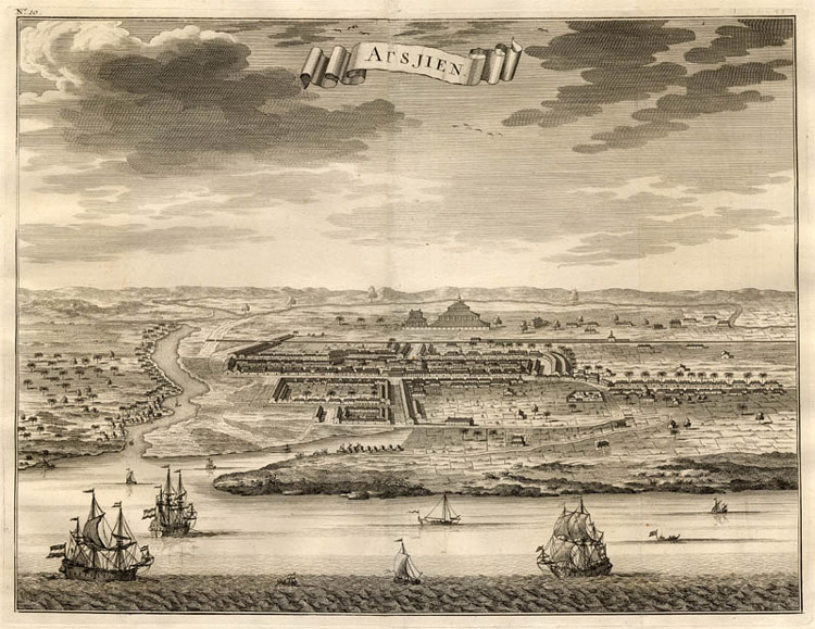 Antique map of Sumatra - Banda Ache by Valentyn, from Oud en Nieuw Oost Indien. 1724-26.